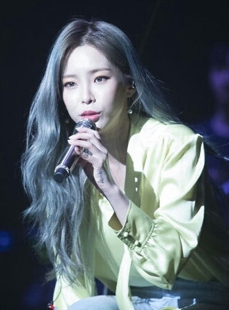 Heize at Zion.T X Heize Concert on April 21, 2018